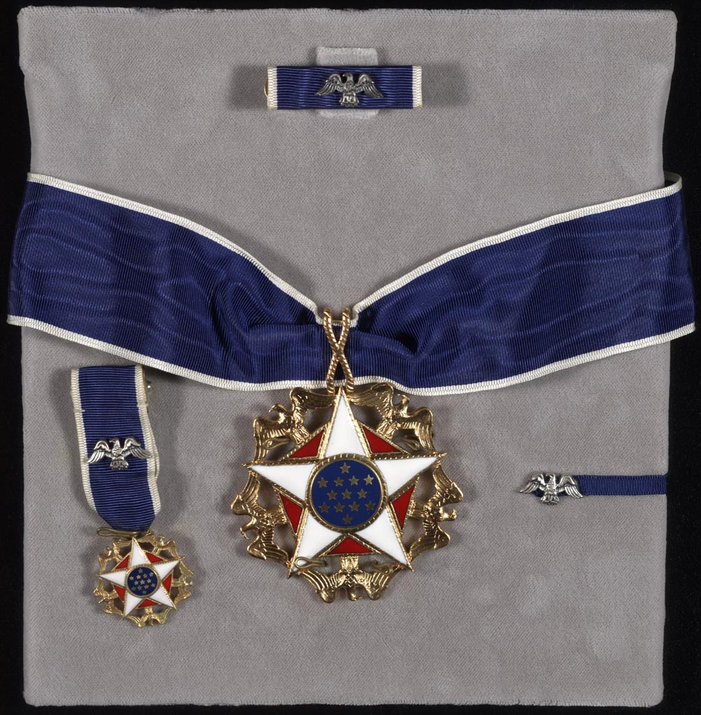 The general badge of the Presidential Medal of Freedom, with its various components. This specific medal was presented to Bob Hope.